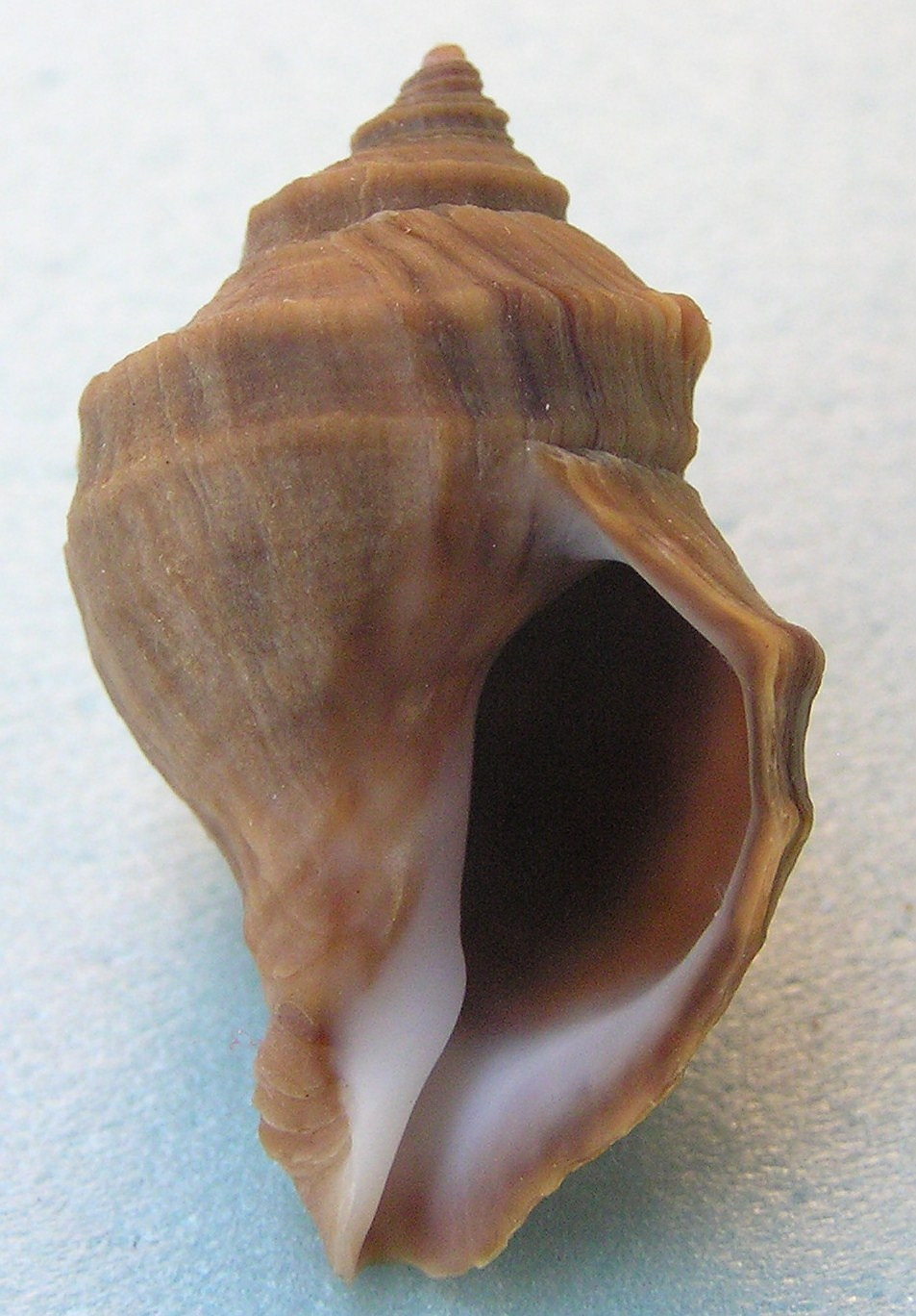 Nucella lamellosa (Gmelin, 1791) , a murex snail in the family Muricidae